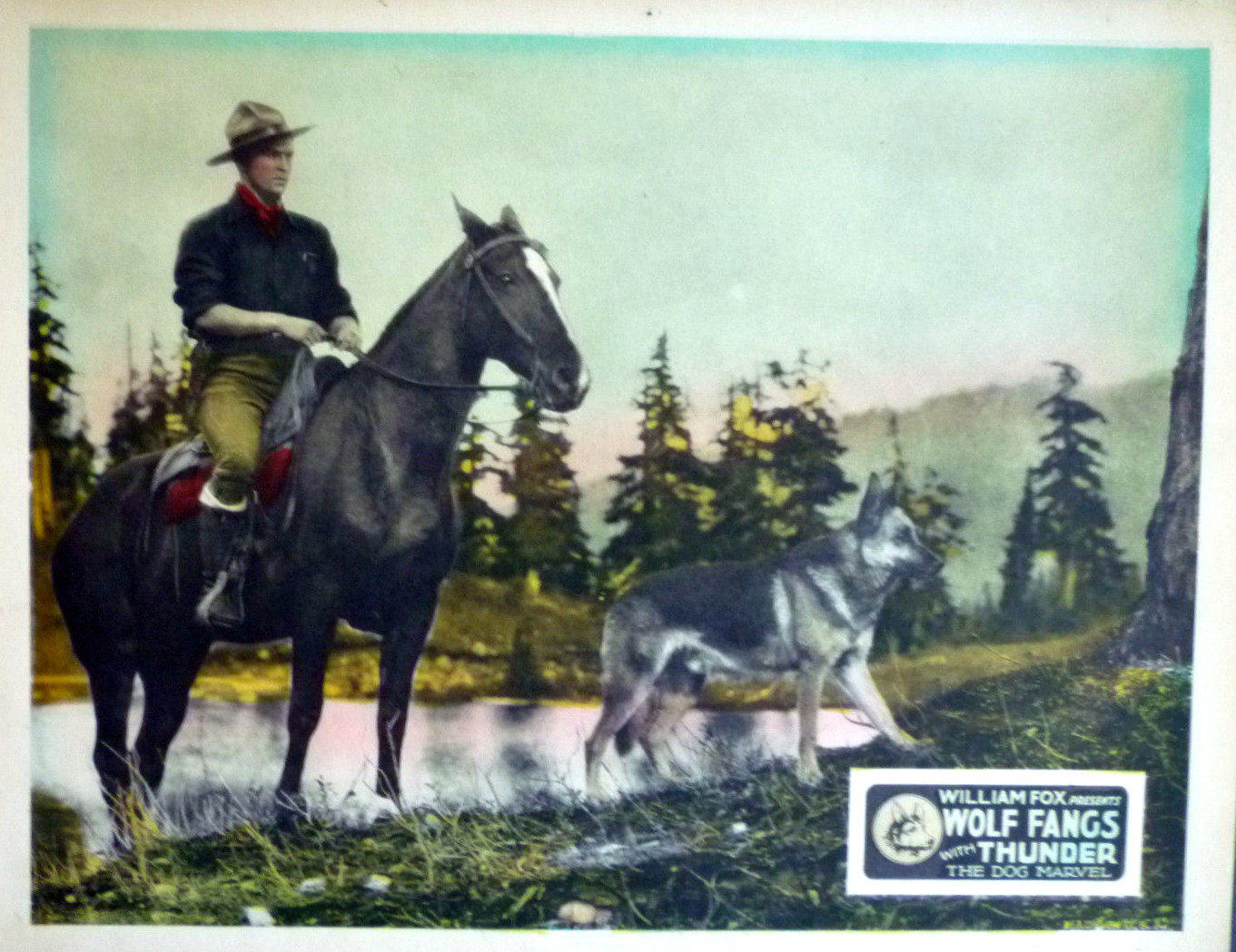 Lobby card for the American action film Wolf Fangs (1927).